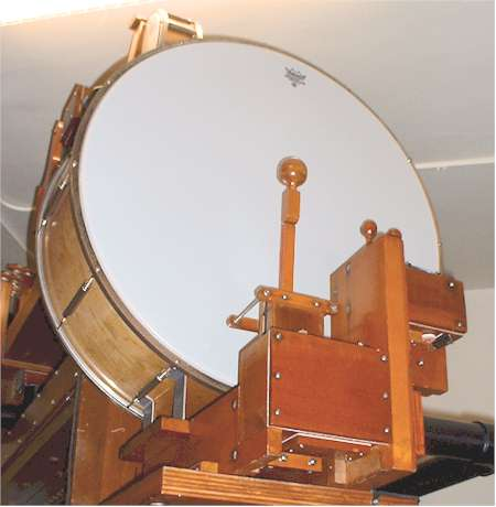 Photo shows a drum percussion and its electro-pneumatic beater action on the Wurlitzer theater pipe organ at the Meyer Theatre in Green Bay, Wisconsin.